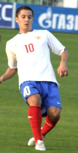 Viktor Fayzulin in action for Russia national U21 football team